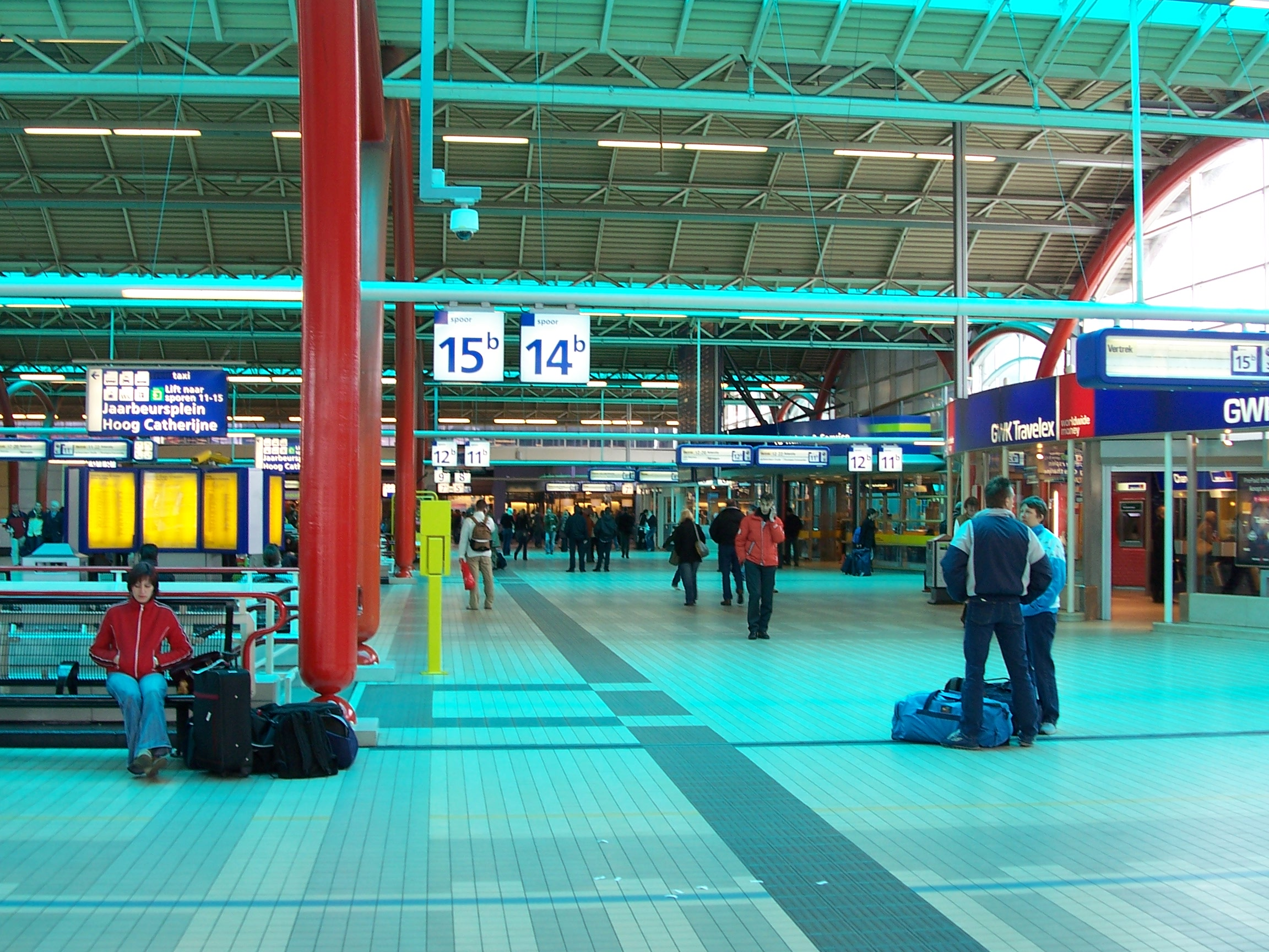 Railway Station Utrecht Centraal The Netherlands